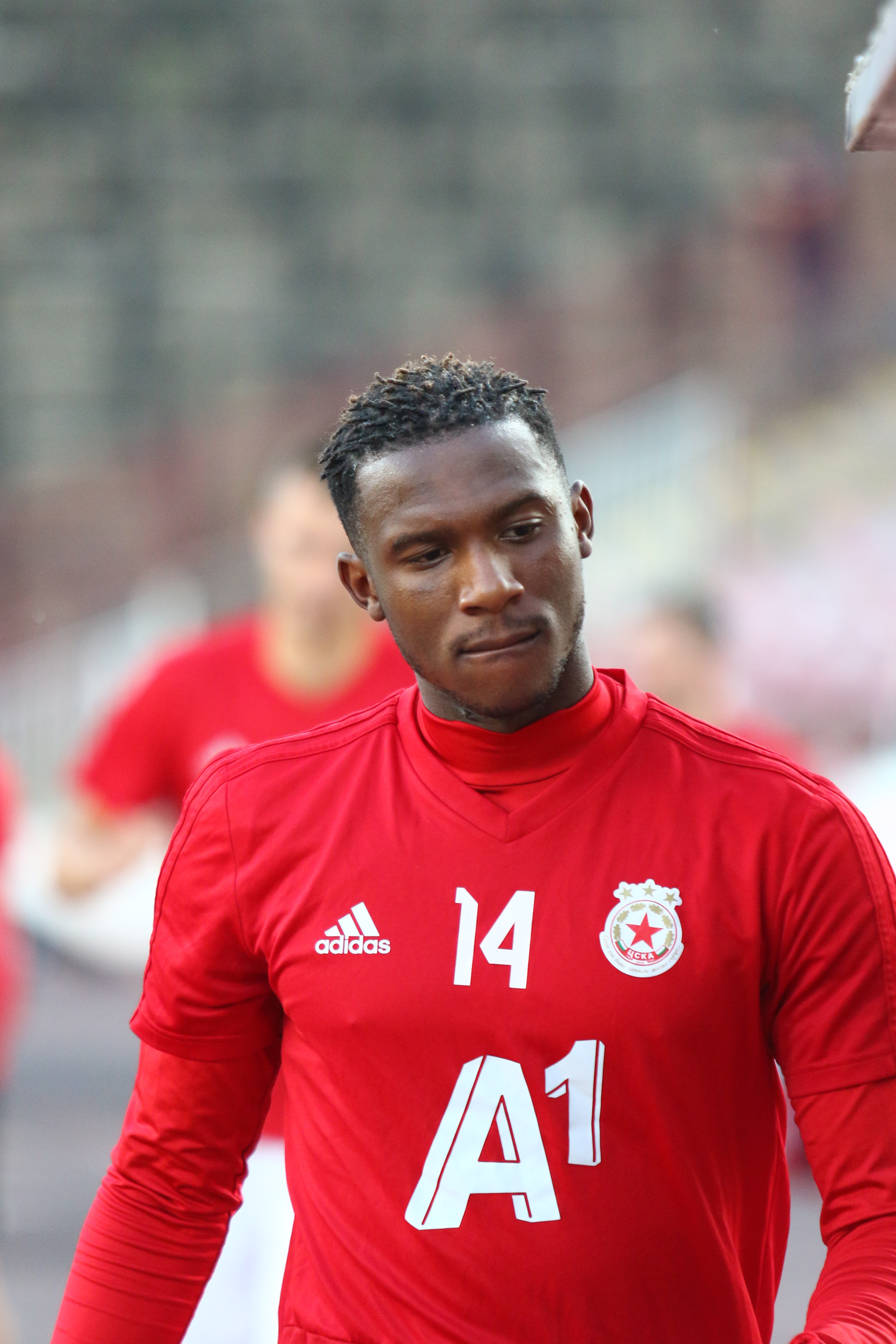 Viv Efosa Solomon-Otabor (born 2 January 1996) is an English professional footballer who plays for Bulgarian First League club CSKA Sofia.